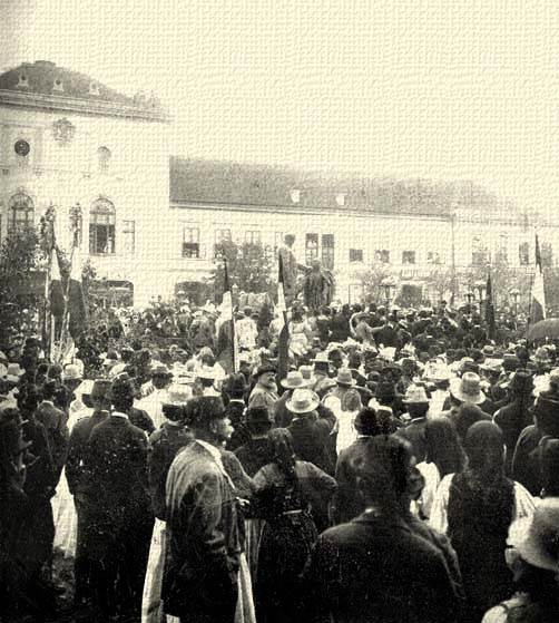 The opening ceremony of Wesselényi Monument on September 18, 1902. In Background Vigadó Building